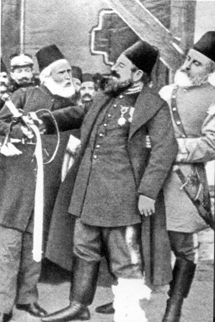 Frame from Independenţa României film (1912). Giving up the sword. Constantin Nottara as Ospan Paşa